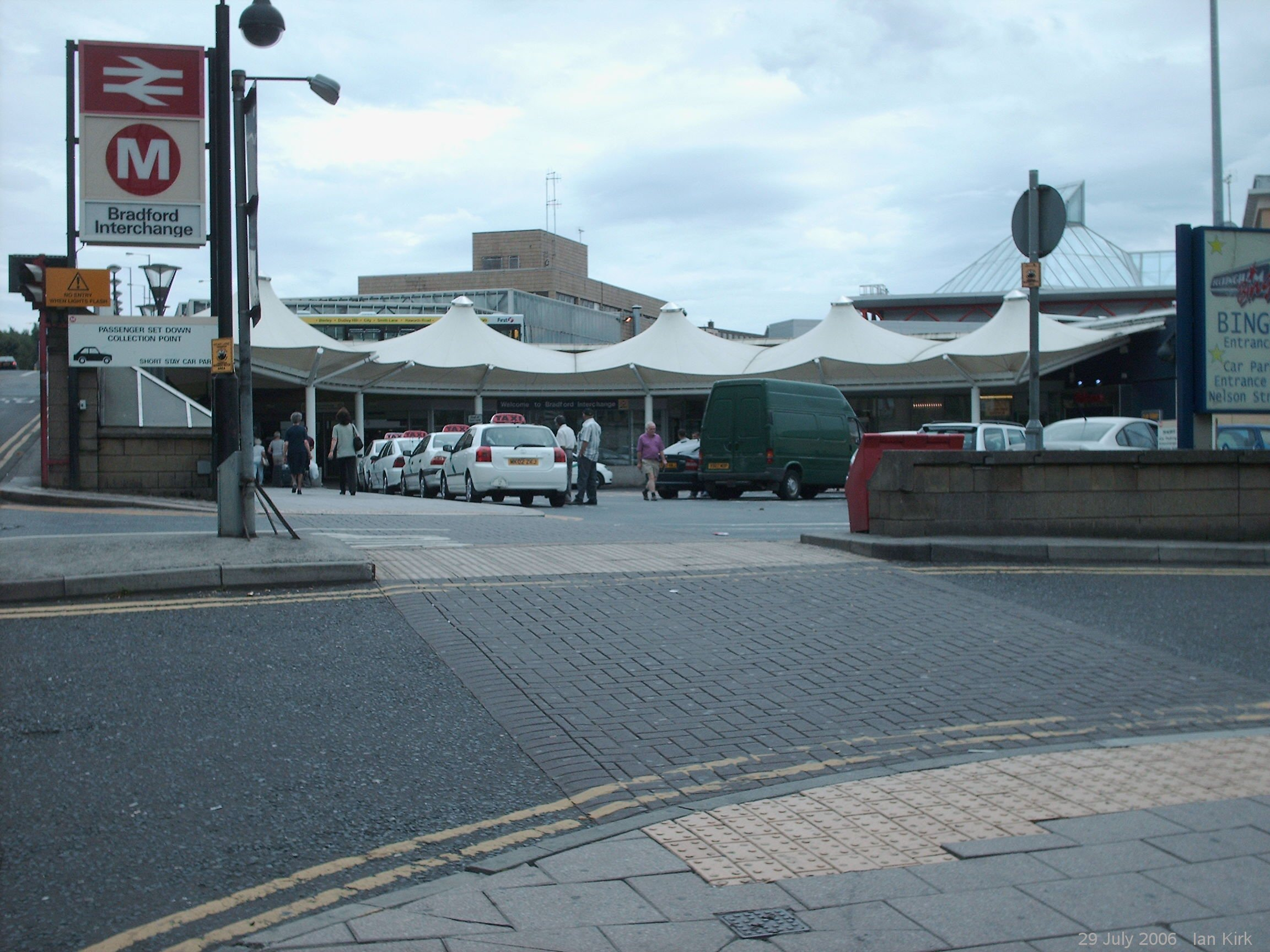 Bradford Interchange railway station, West Yorkshire, England. The car park and entrance.